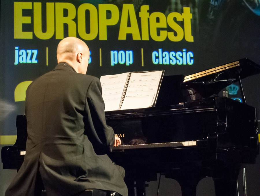 Dan Papirany Trio at Teatrul Odeon, Bucharest Romania